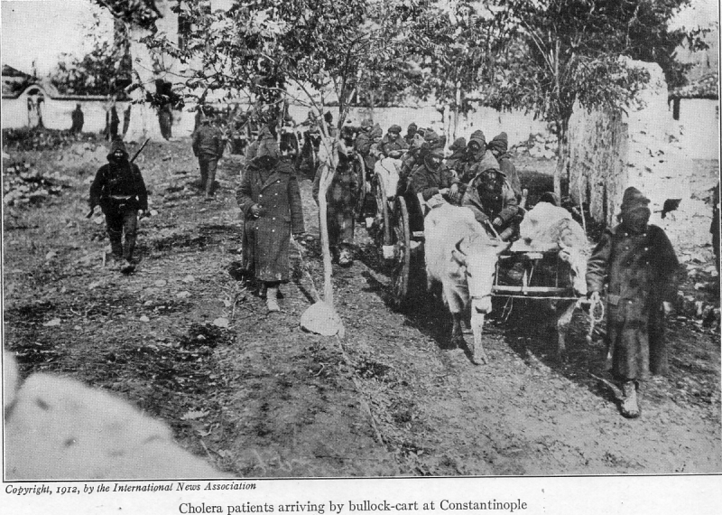 Cholera patients arriving in Constantinople in 1912, during the Balkan Wars.